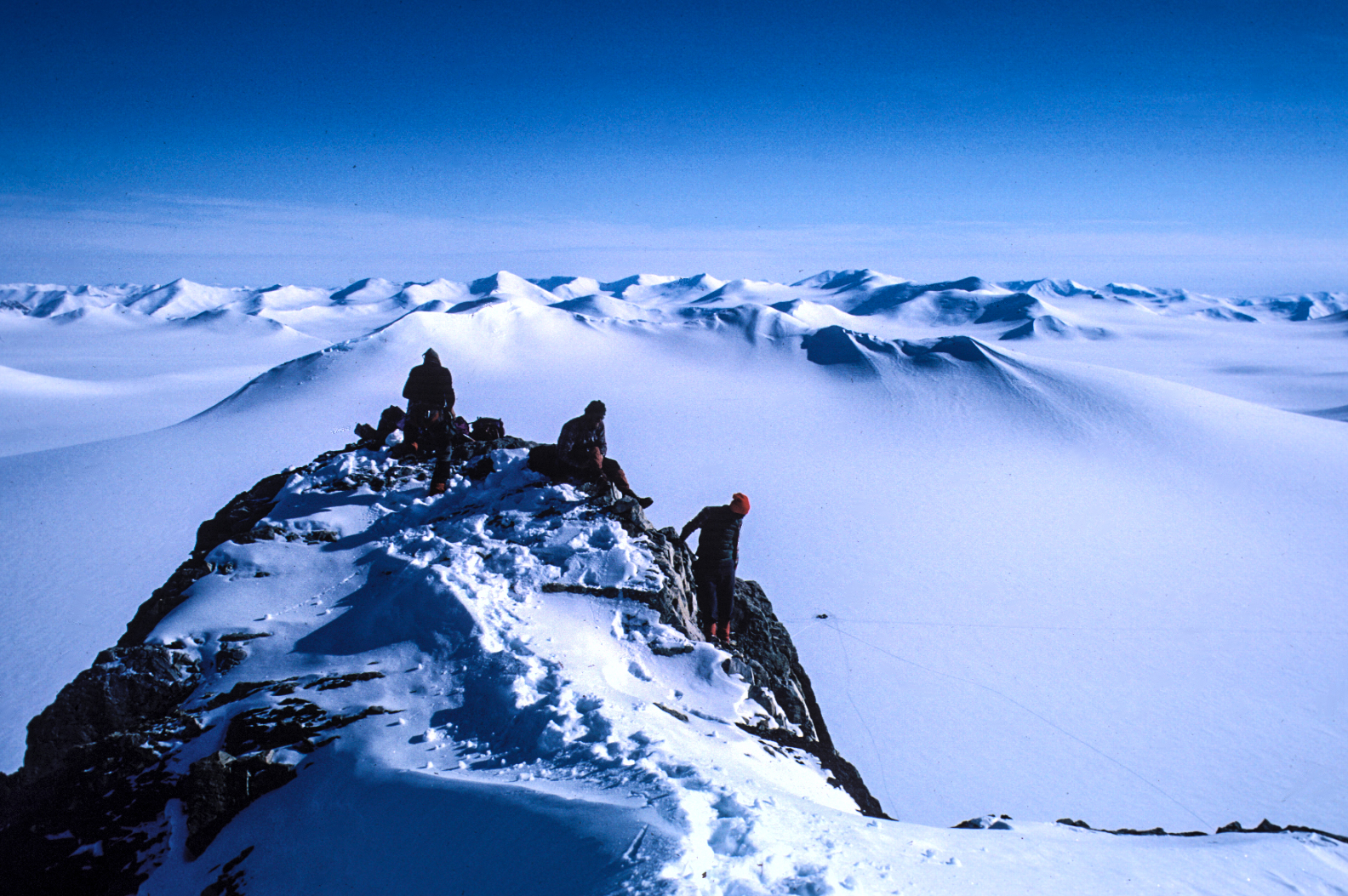 Picnic on summit of DeHaven Peak